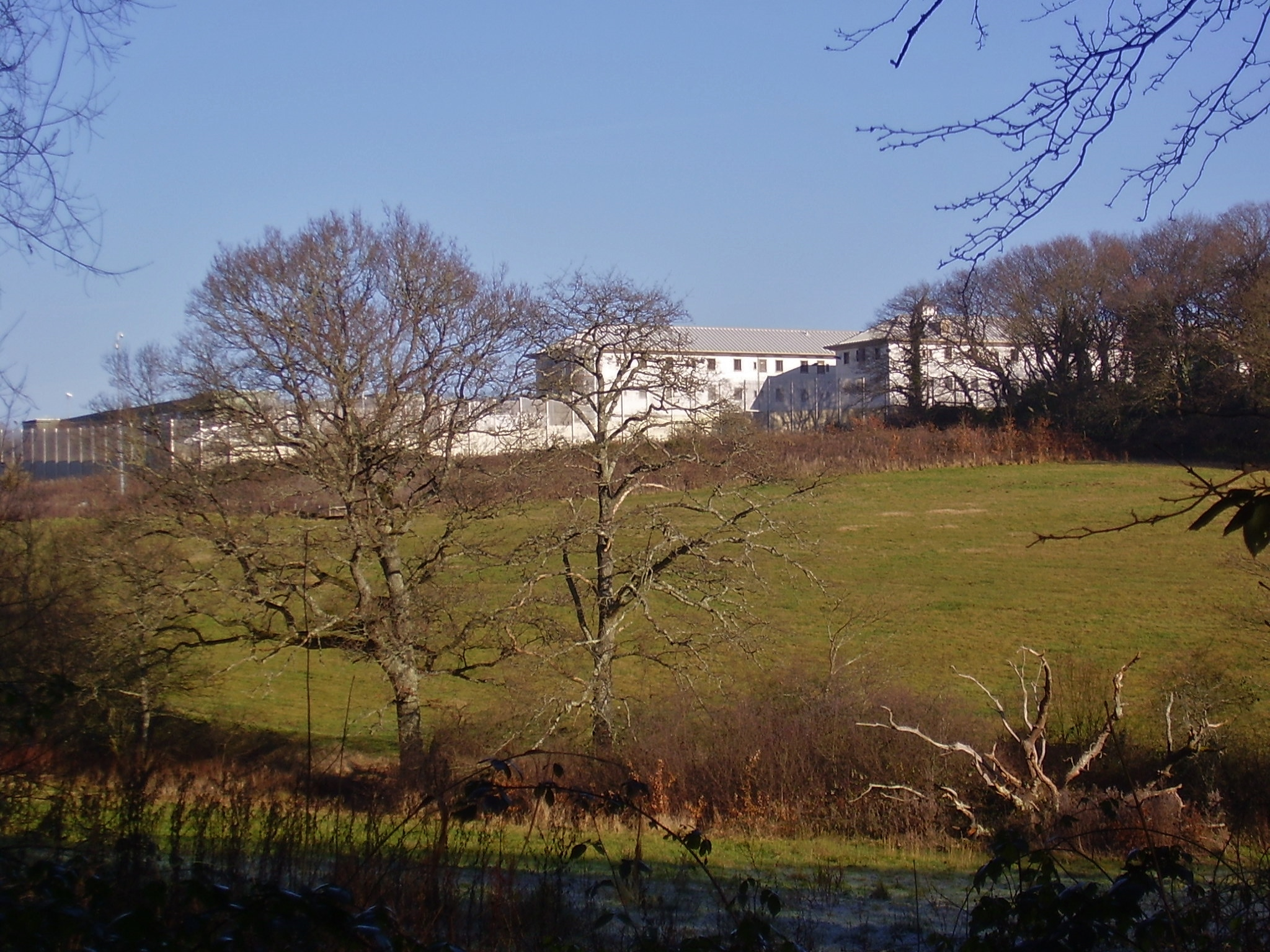 The former Camp Hill Prison, near Newport, Isle of Wight, viewed from Parkhurst Forest.